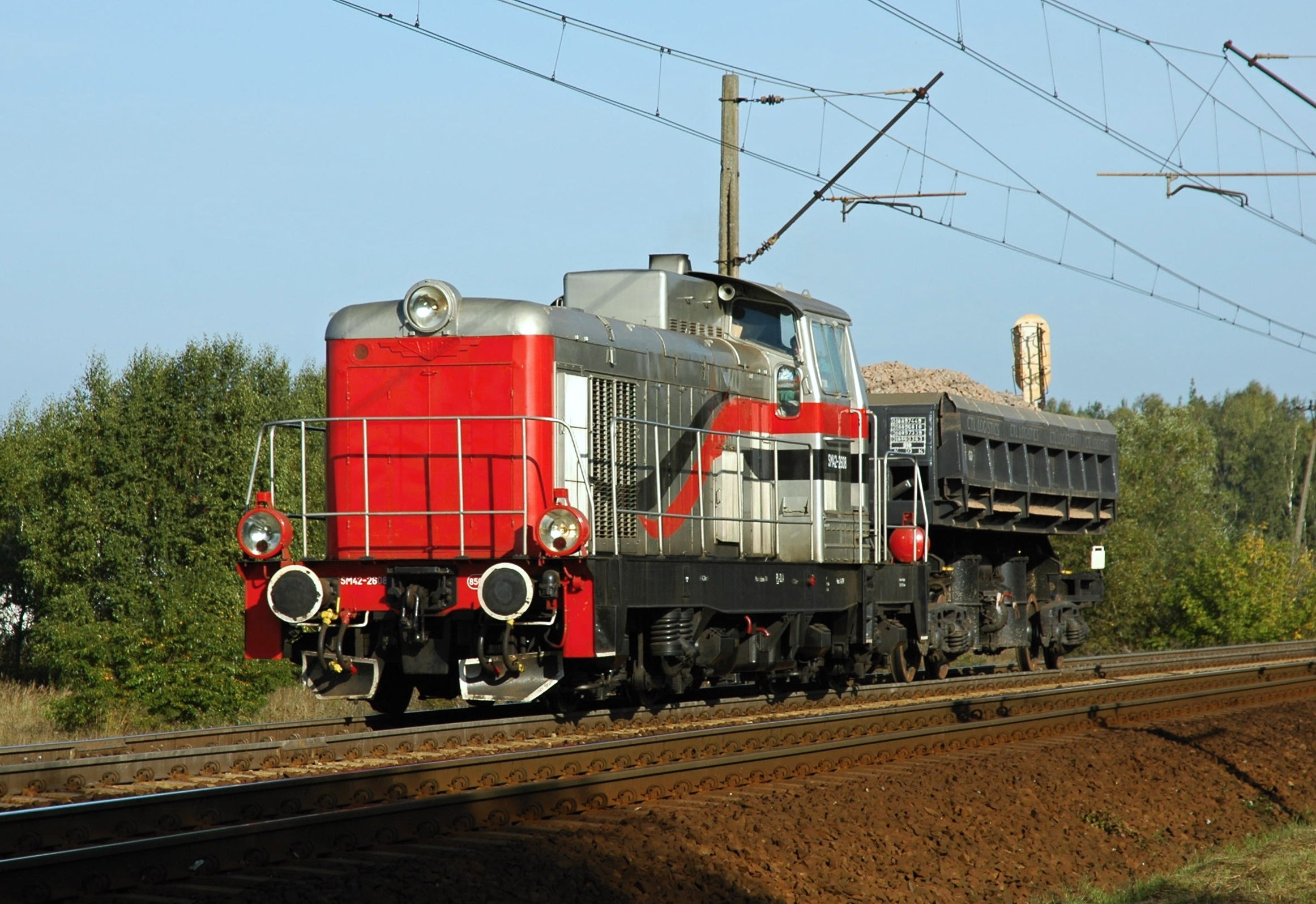 SM42-2608 of Dolnośląskie Linie Autobusowe with a freight train between Nowa Wieś Wielka and Złotniki Kujawskie stations, Poland